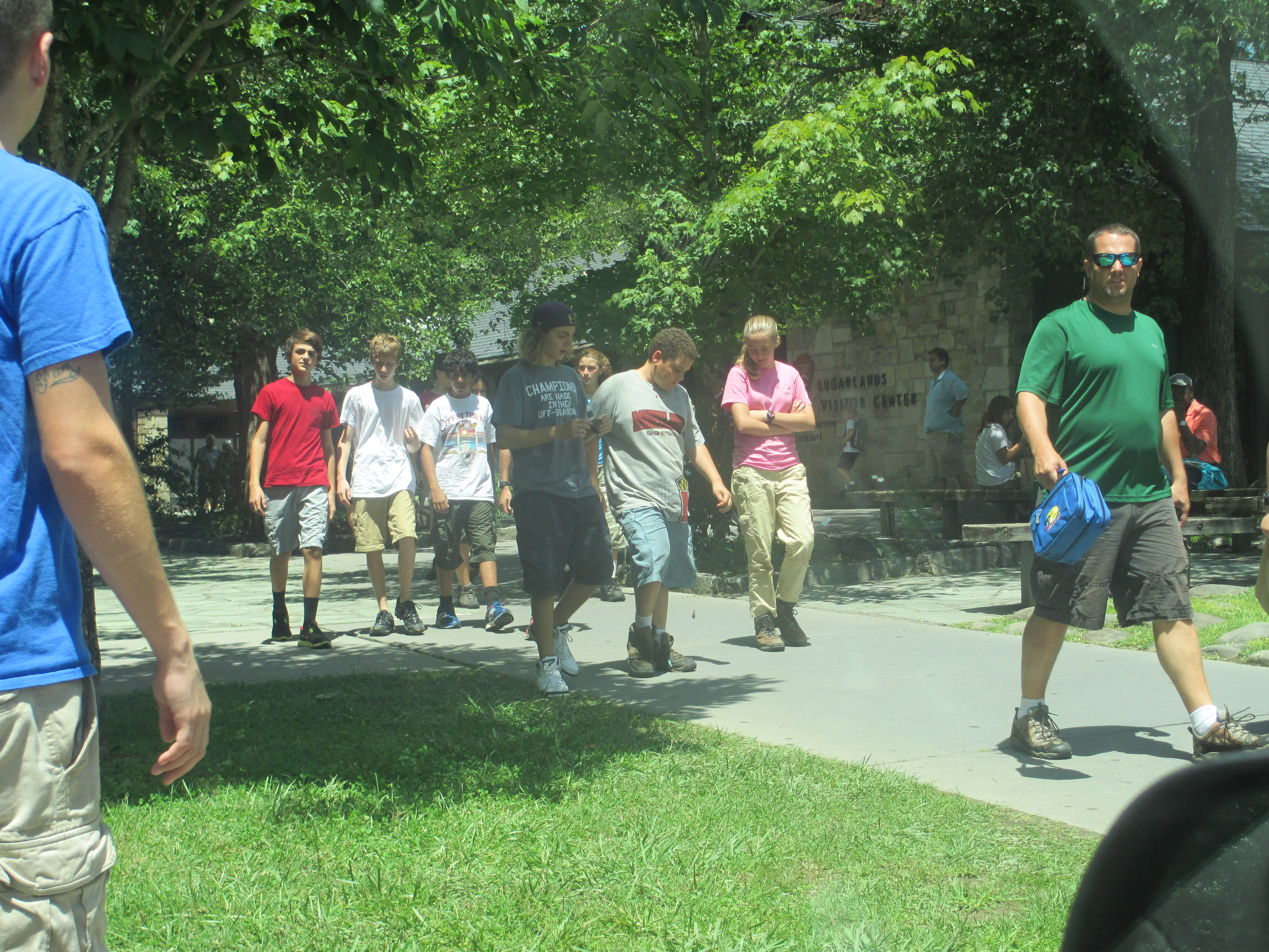 I took photo of Sugarlands Visitor Center in the Great Smoky Mountains National Park, with Canon camera.